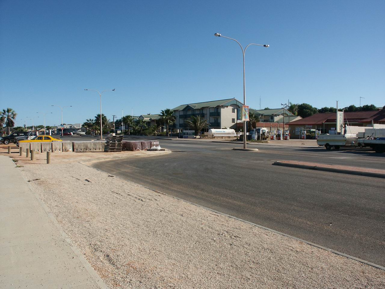 Denham, Western Australia townsite.